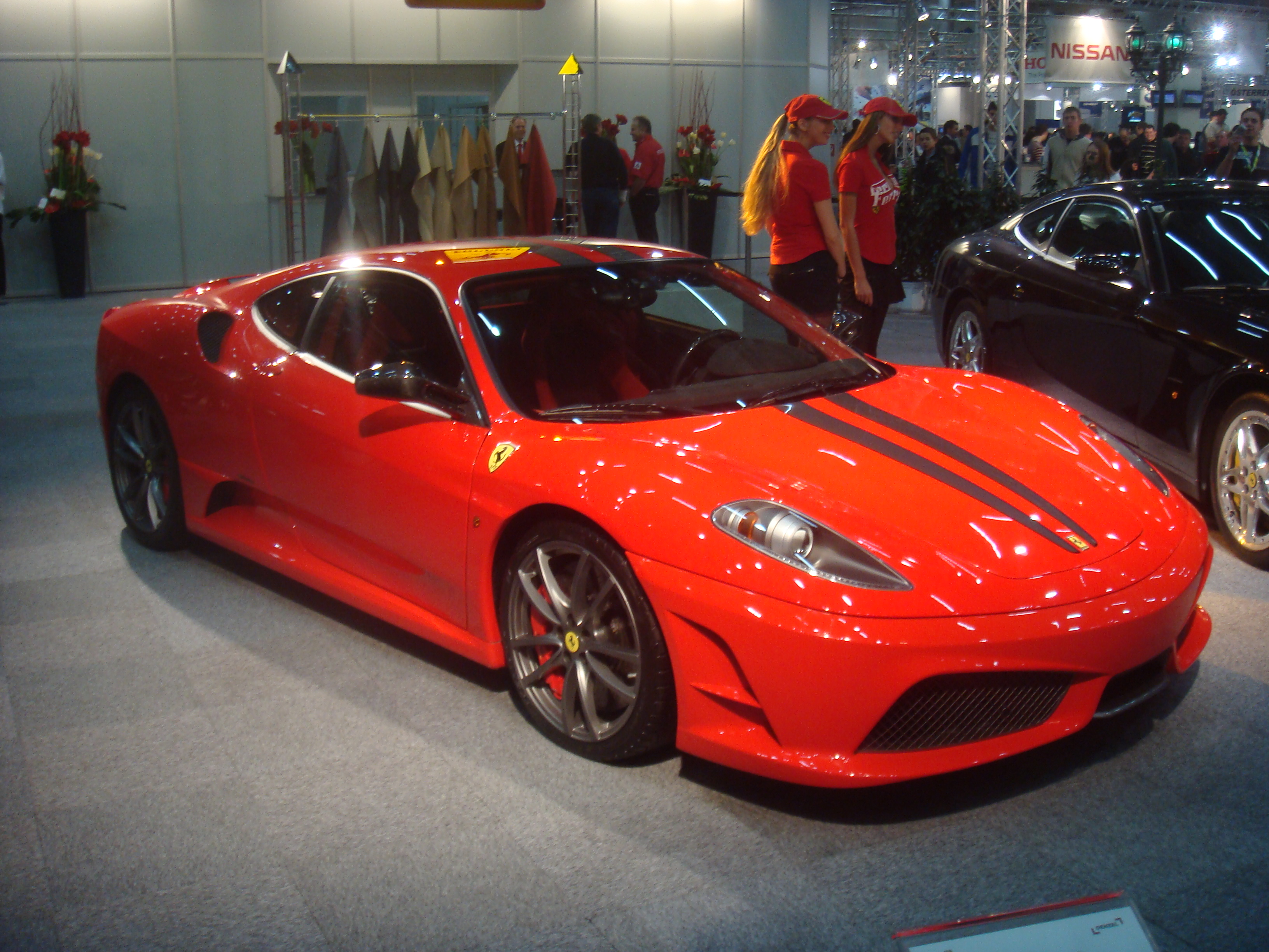 A red Ferrari F430 Scuderia at the Vienna Autoshow